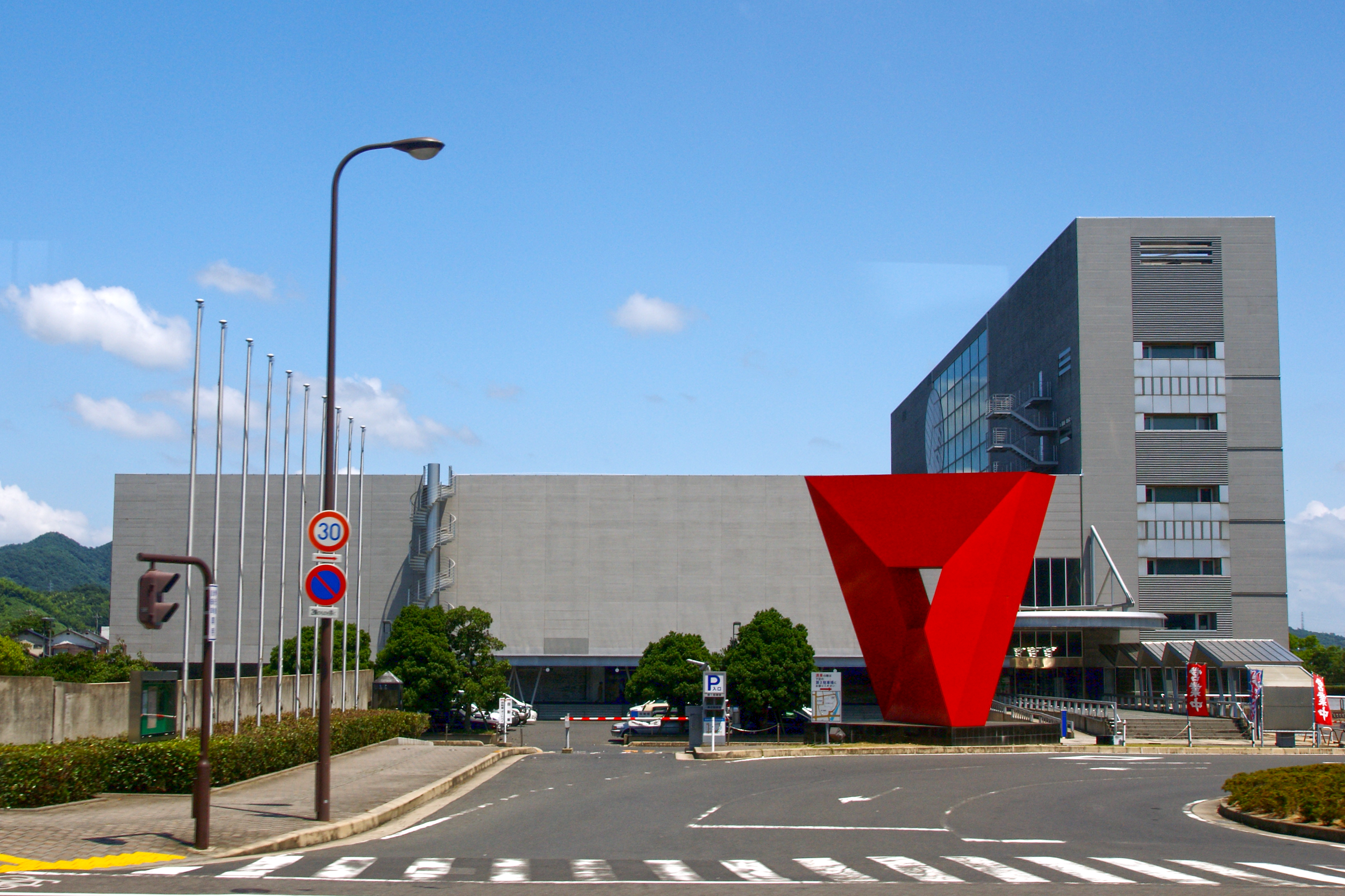 "Kunibiki Messe" (Shimane Prefectural Convention Center) in Matsue, Shimane prefecture, Japan.